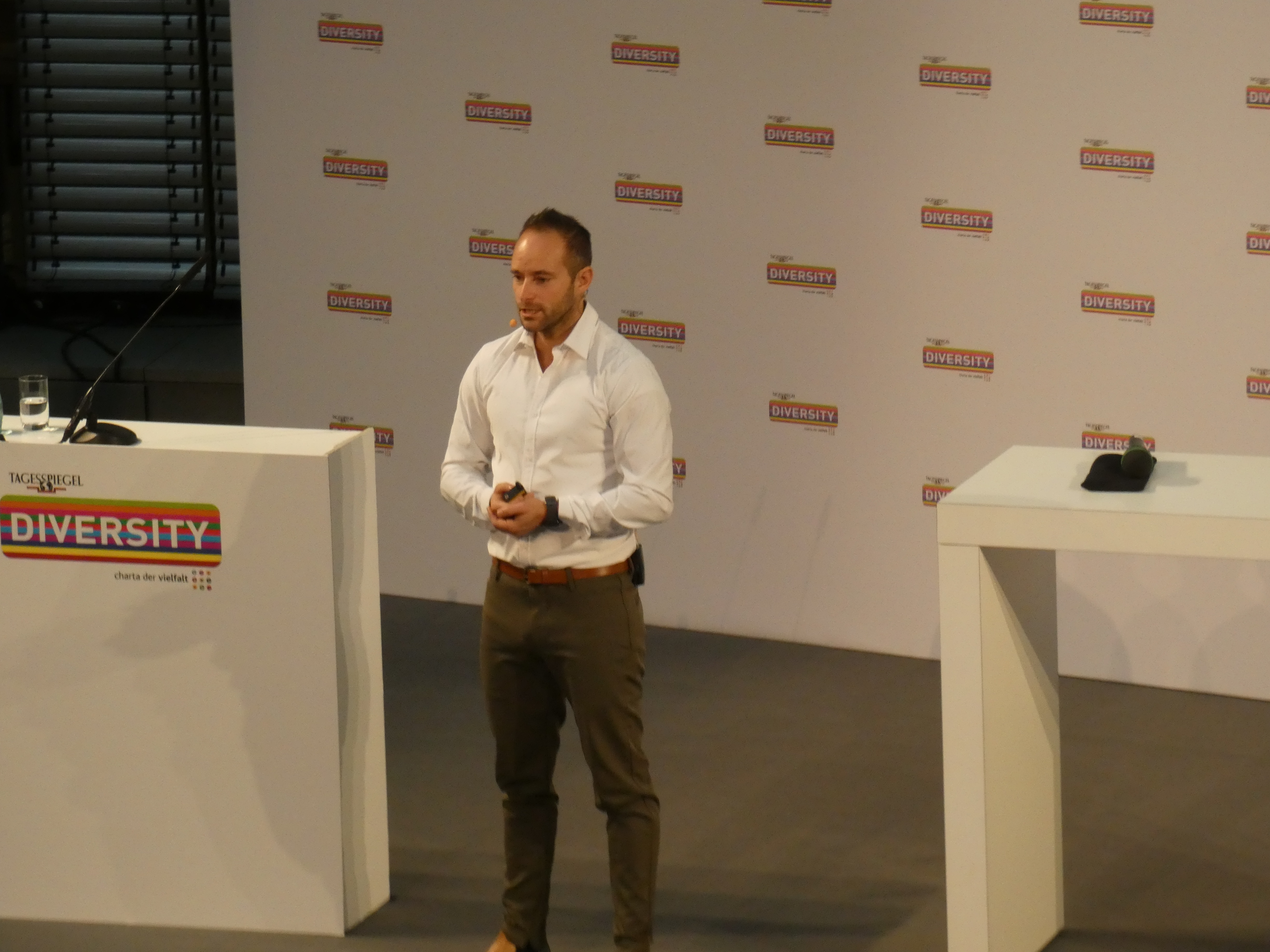 Diversity conference 2019, Postdamer Platz, Berlin